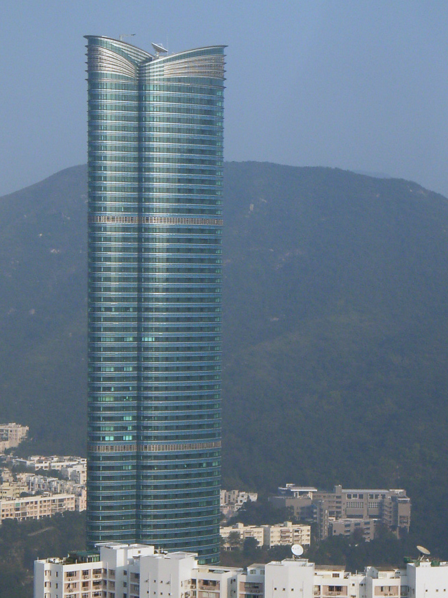 Highcliff, Hong Kong Island, Hong Kong